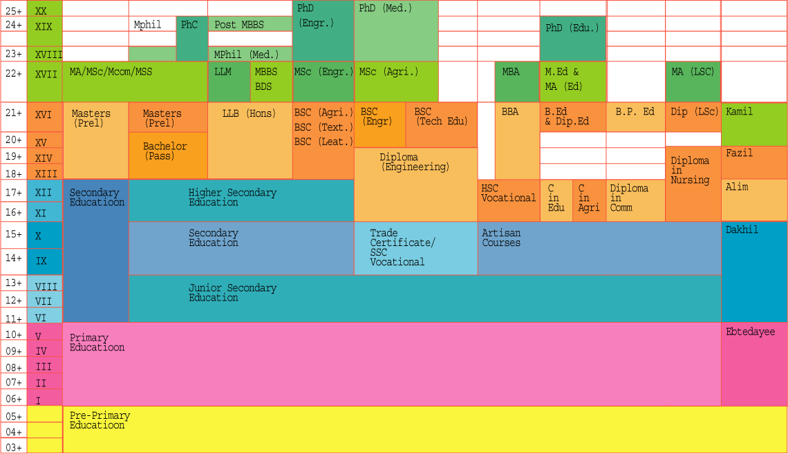 Bangladesh education system chart (adapted from: BANBAIS)